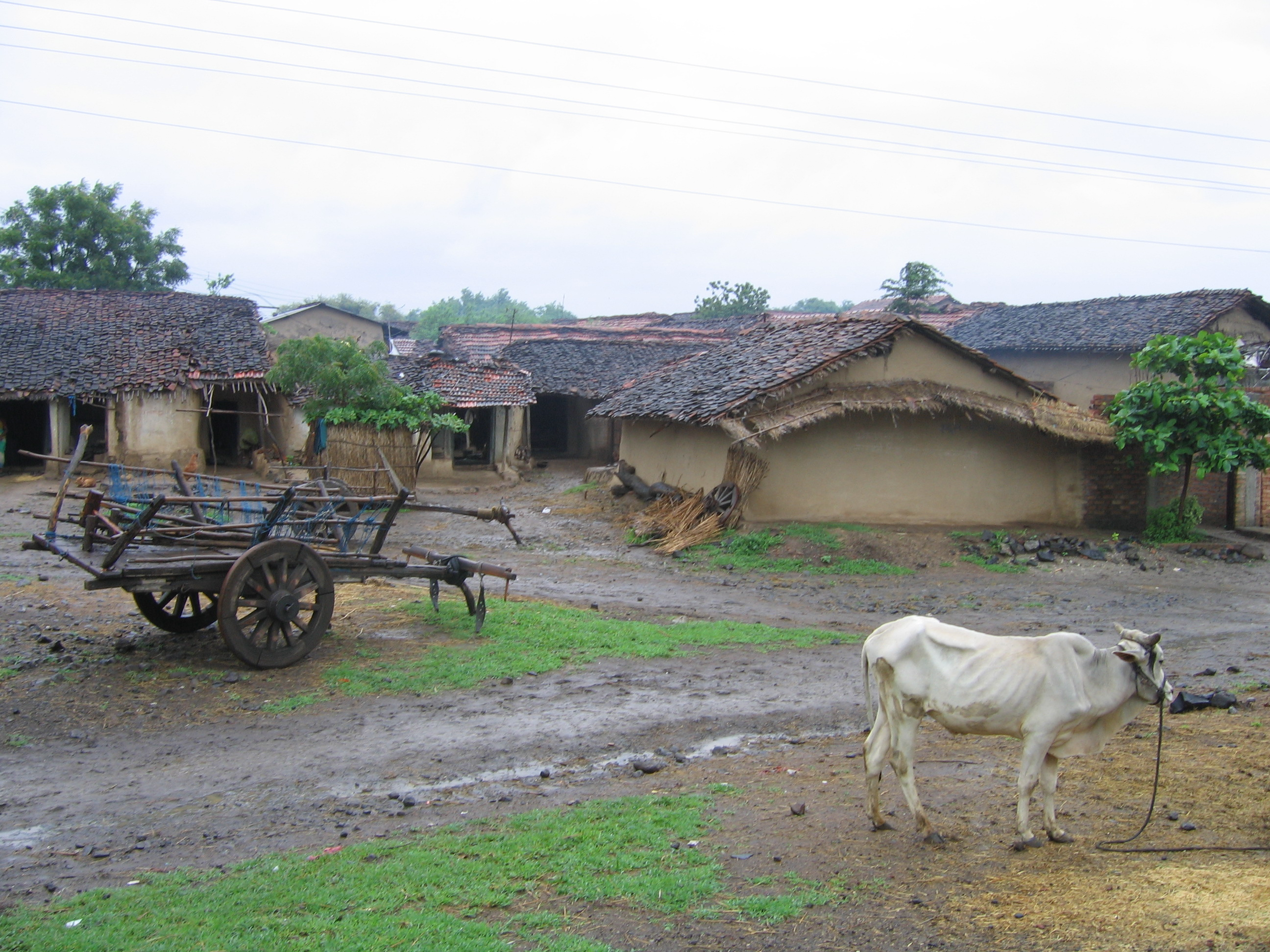 A village in central India.